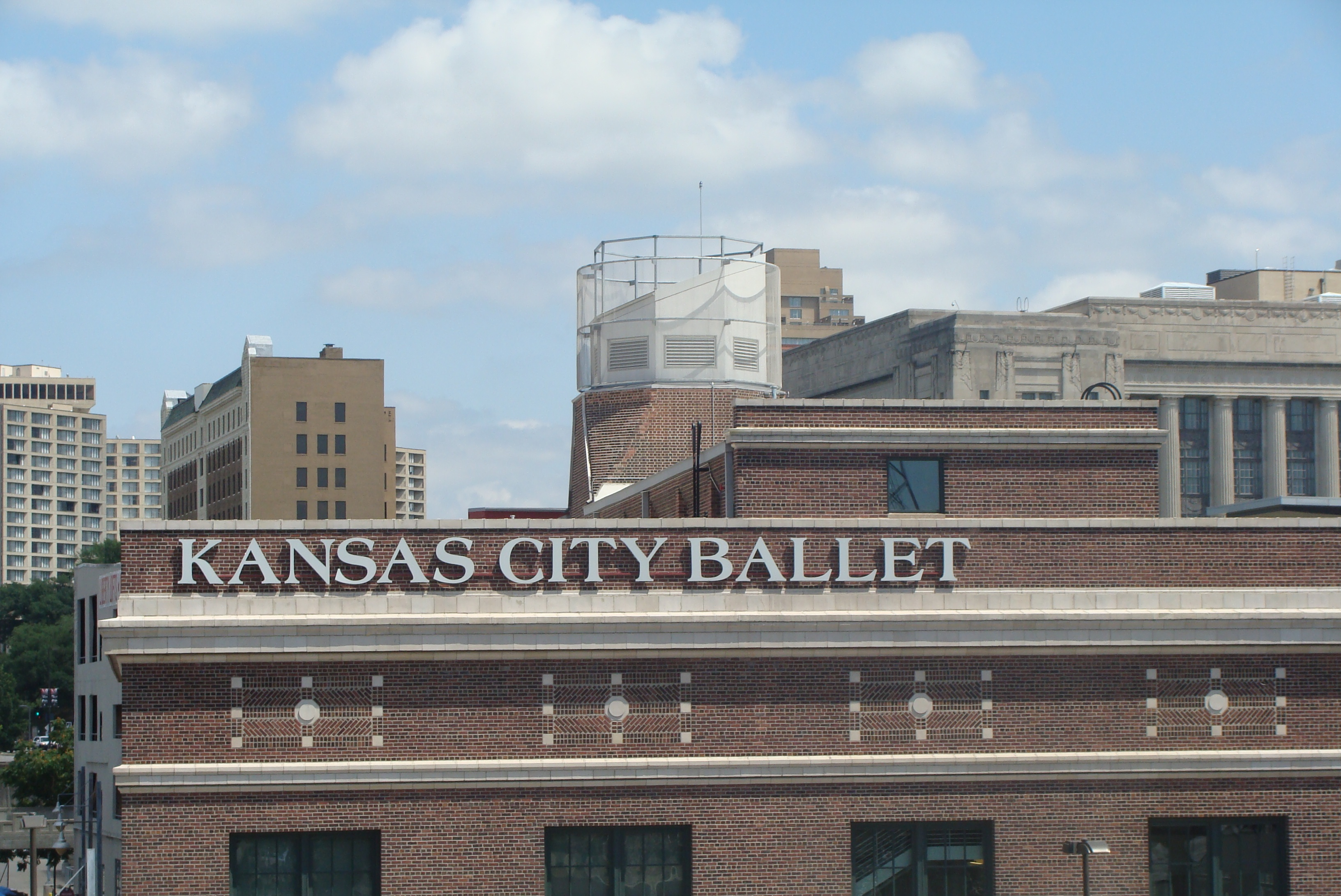 The Kansas City Ballet, located near Union Station, Kansas City, MO